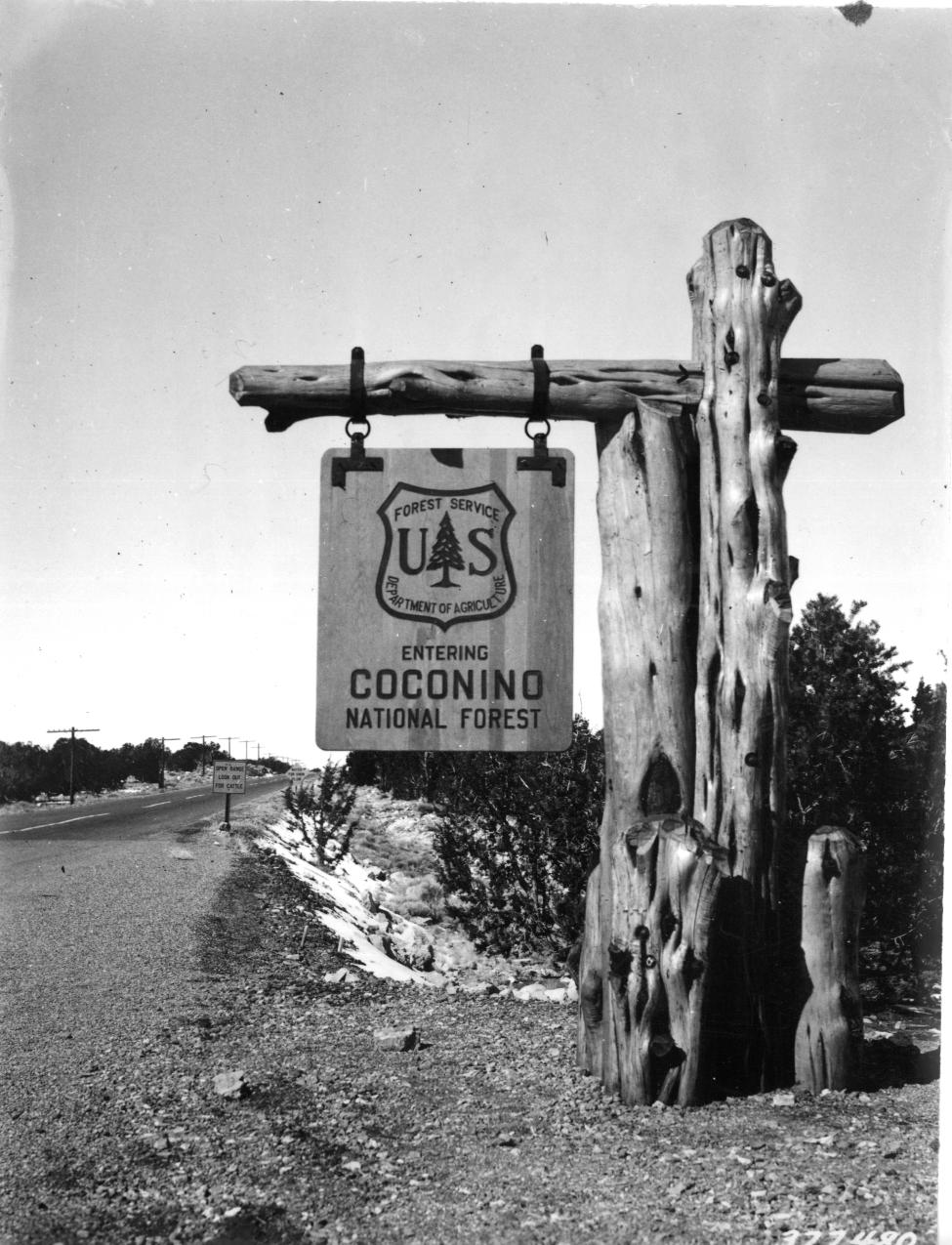 Entrance marker number 24-G, on Highway 66, at the east boundary of the Coconino. The smaller sign reads "Open Range, Look Out For Cattle". Photo taken in 1939 by F. A. Baker Credit: USDA Forest Service, Coconino National Forest